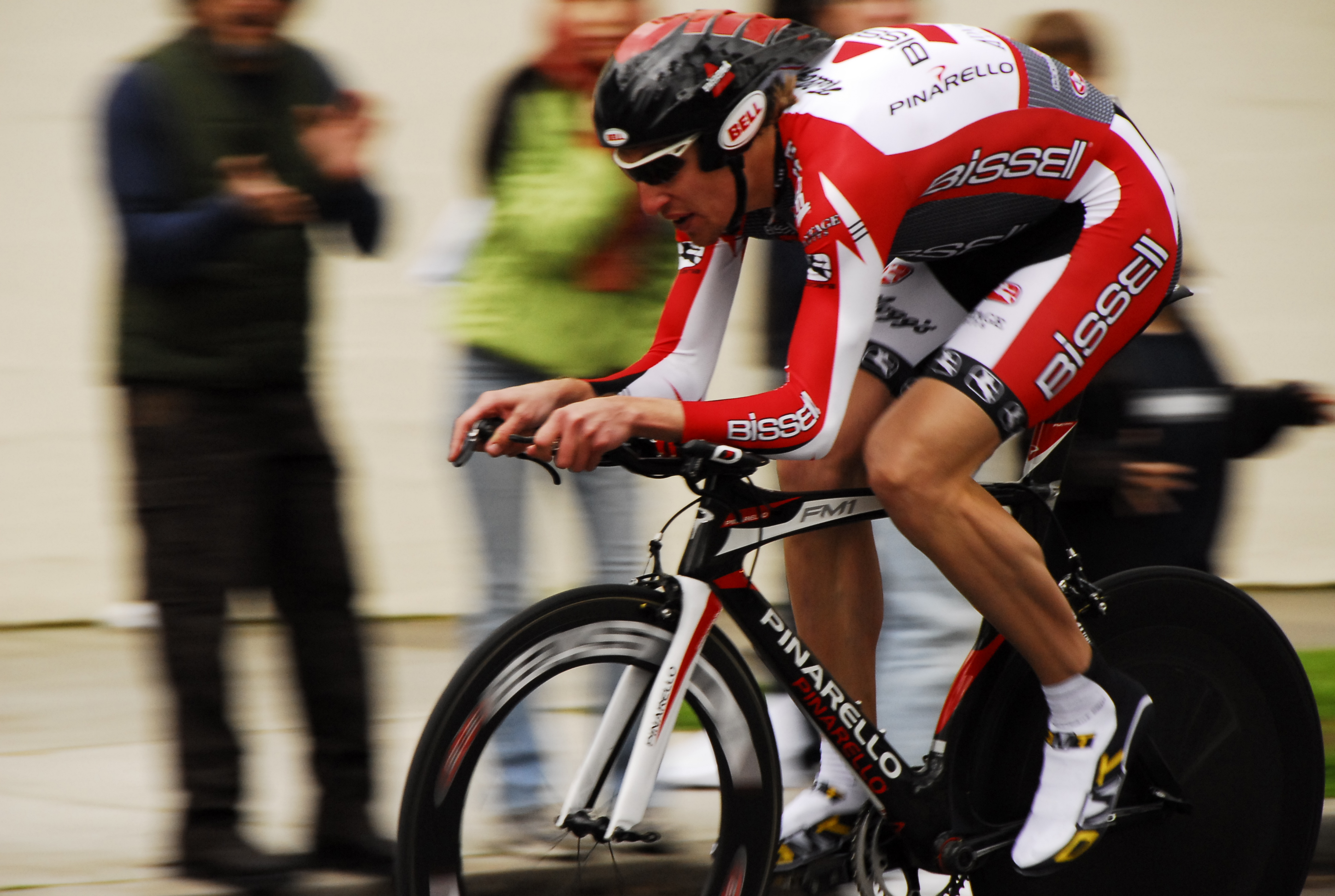 Tom Zirbel, Tour of California 2009